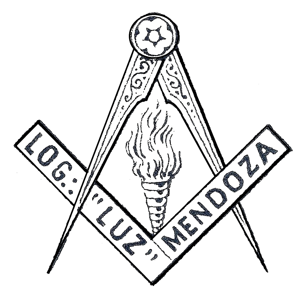 Seal of Light of Hiram Lodge No. 35, Argentina